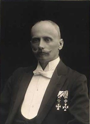 Emil Ferdinand Svitzer Lund (1858-1928), Danish art historian and curator